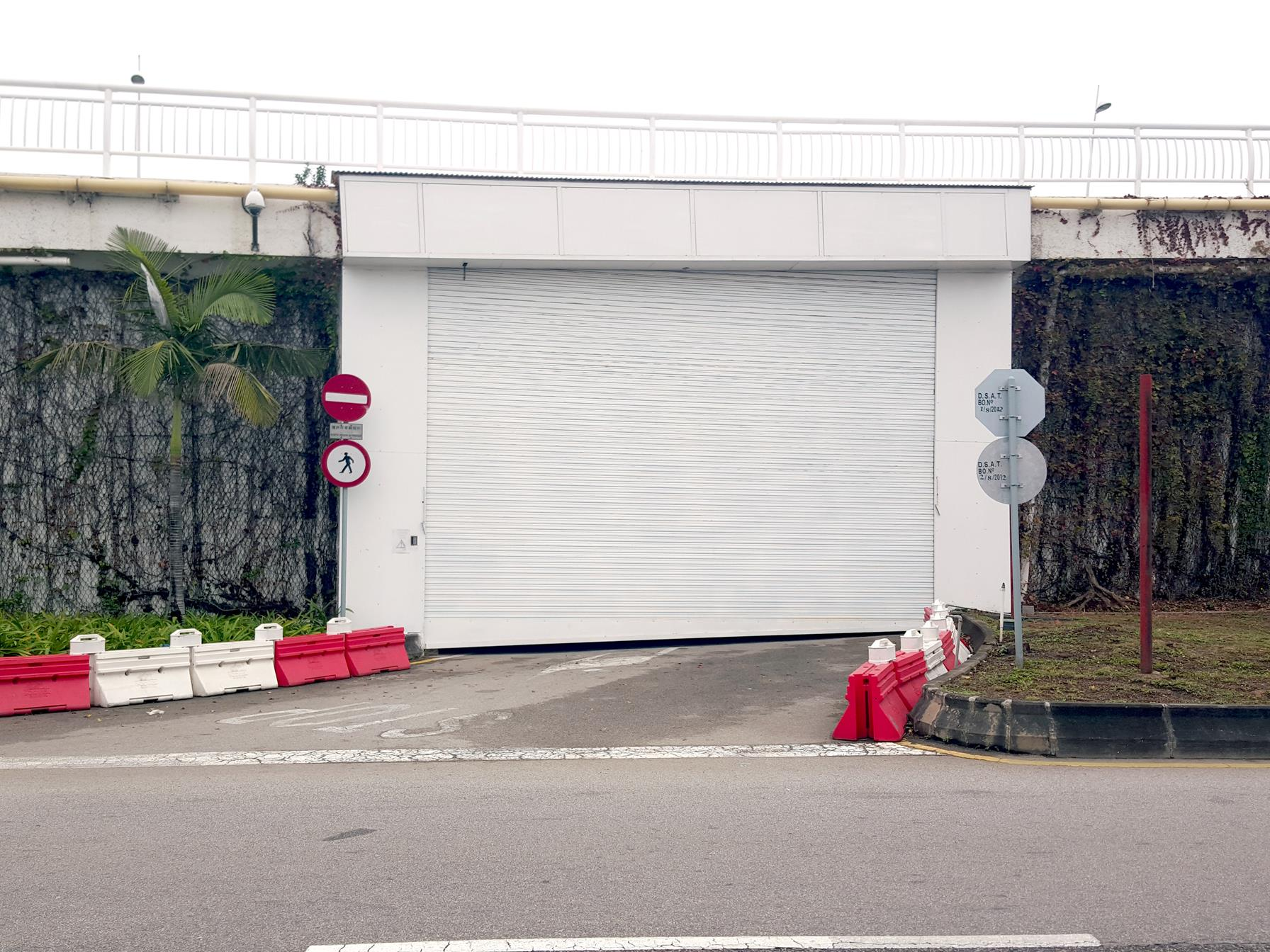 Sai Van Bridge